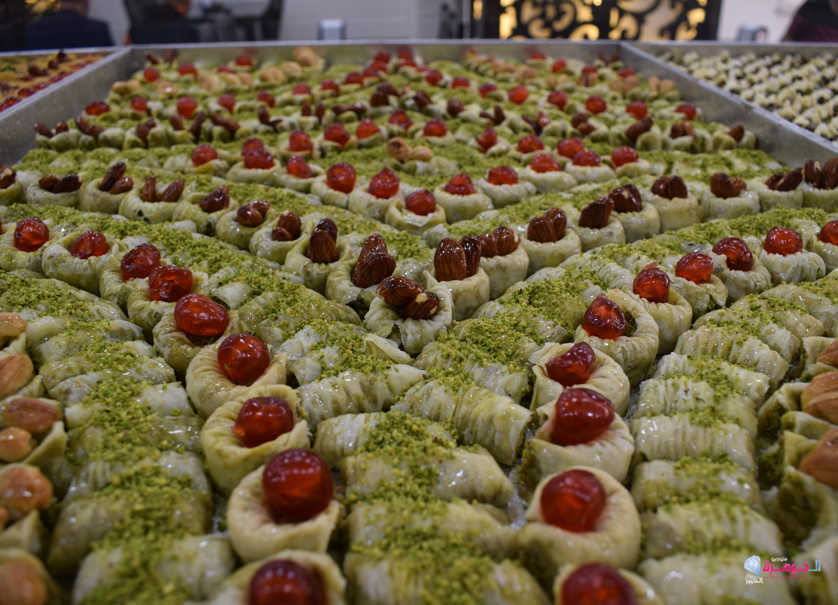 We as Palestinian are distinguished for our marvelous sweets.